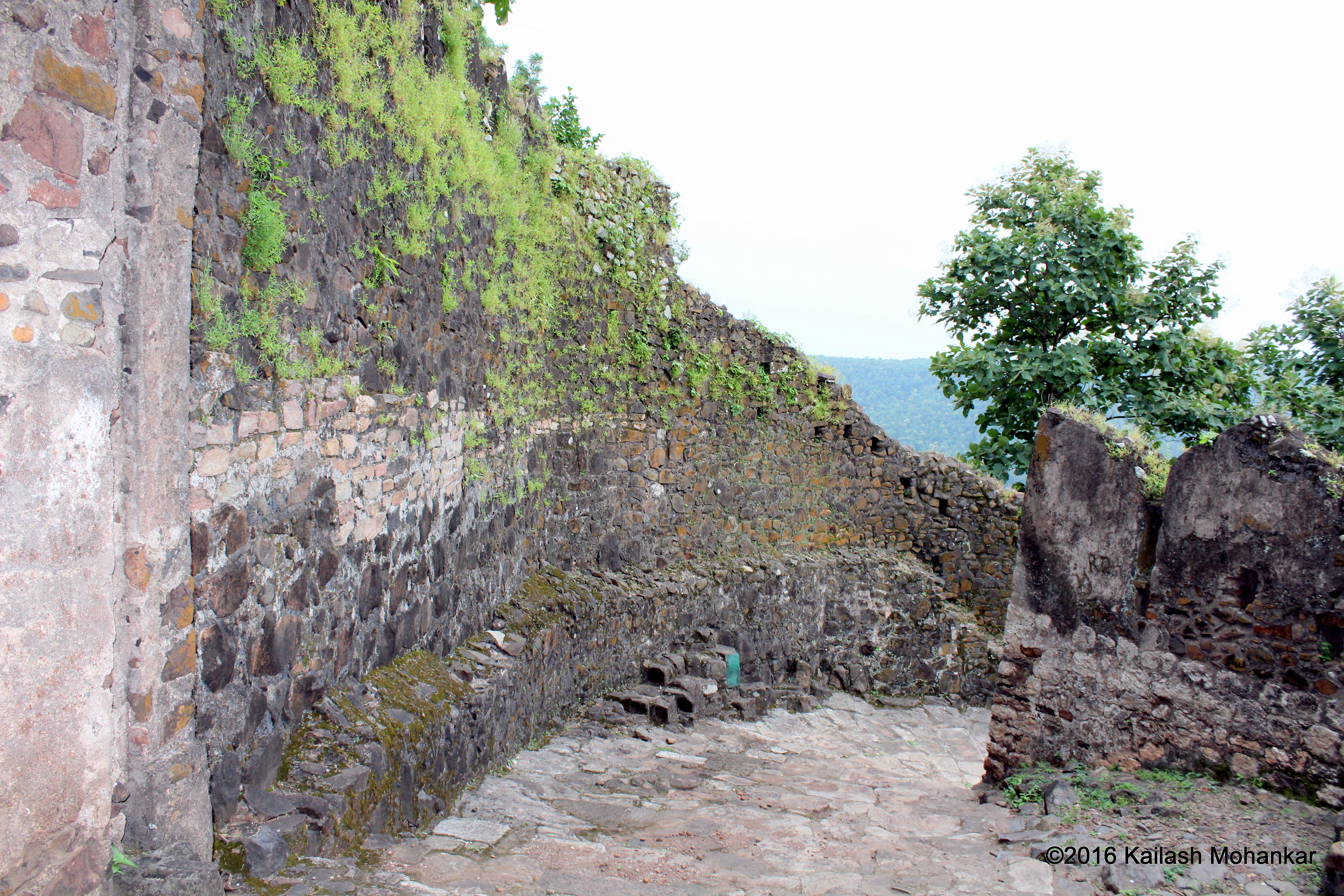 Stairs at the Entrance of Deogarh Fort